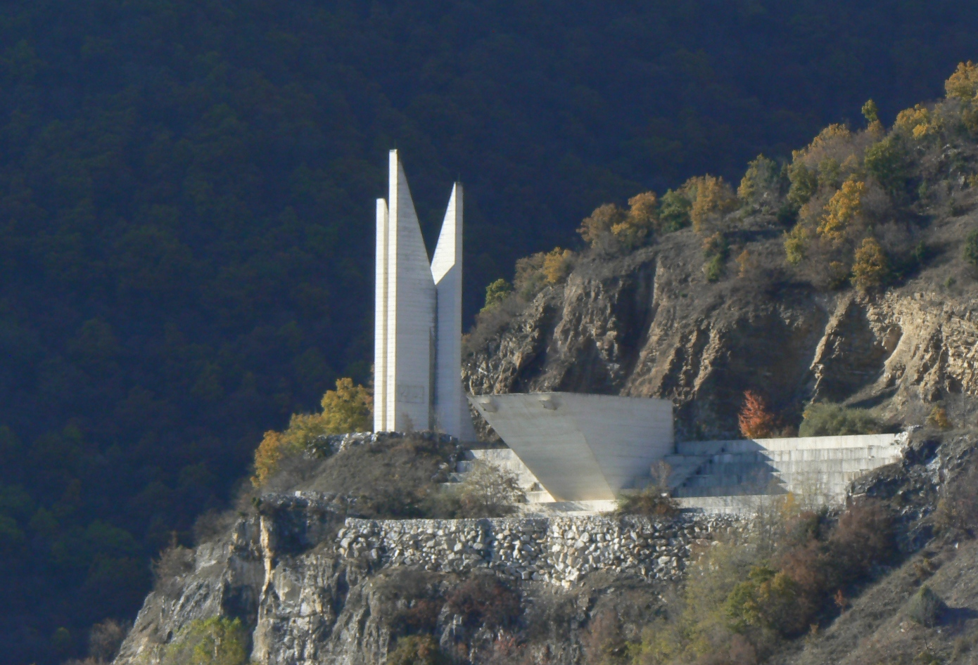 Memorial of the partisan group "Anton Ivanov" on the shore of Vatcha Dam in the Rhodopes, Bulgaria